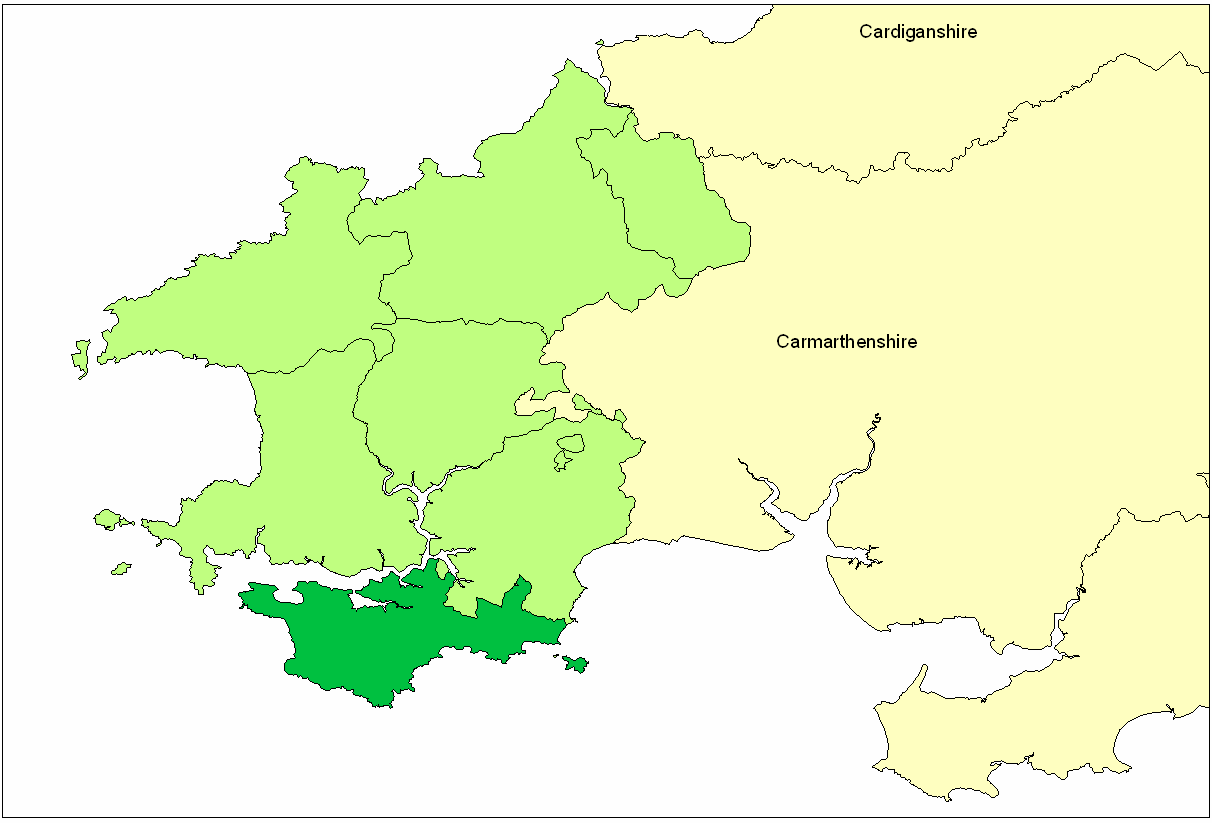 Map showing the location of the Hundred of Castlemartin, in relation to the rest of Pembrokeshire, Wales. Boundaries as in 1851.